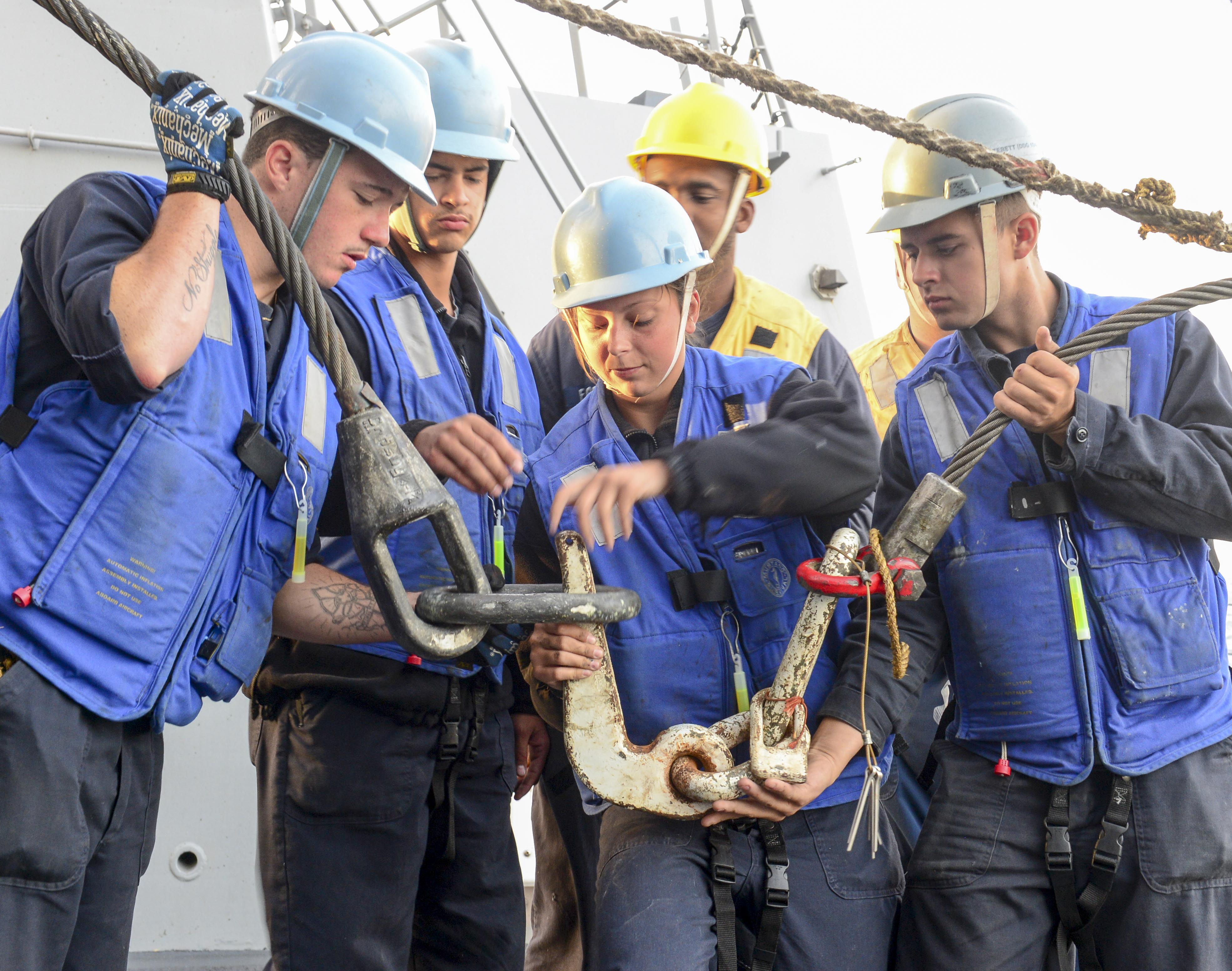 141209-N-GW139-135 GULF OF OMAN (Dec. 9, 2014) Sailors aboard the guided-missile destroyer USS Sterett (DDG 104) connect a pelican hook during a replenishment-at-sea with the Military Sealift Command fleet replenishment oiler USNS Walter S. Diehl (T-AO 193). Sterett is deployed as part of the Carl Vinson Carrier Strike Group supporting maritime security operations, strike operations in Iraq and Syria as directed and theater security cooperation efforts in the U.S. 5th Fleet area of responsibility. (U.S. Navy photo by Mass Communication Specialist 3rd Class Eric Coffer/Released)